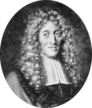 Johann Caspar Kerll, composer